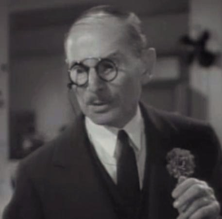 Charles Halton in Nancy Drew... Reporter - cropped screenshot